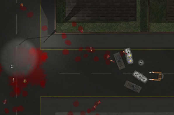 A image of gameplay from JohnnyTwoShoes's Comatose